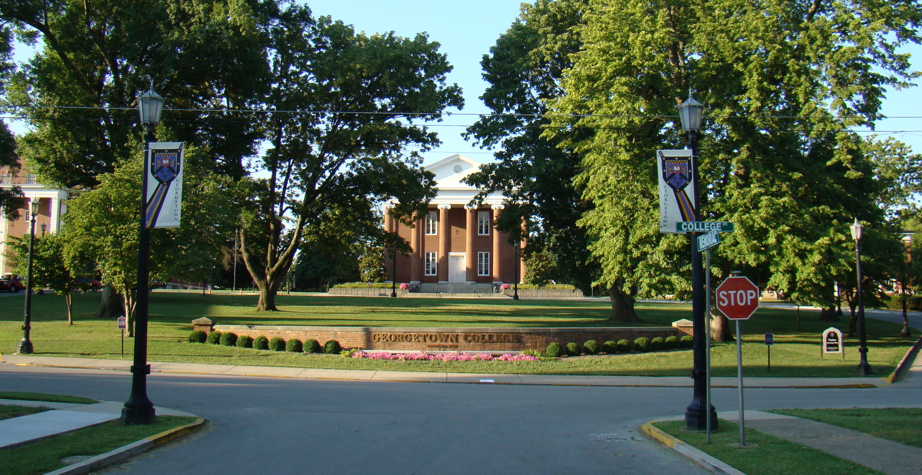 View of Giddings Hall from Memorial Drive on the campus of Georgetown College in Georgetown, Kentucky. The building was added to the U.S. National Register of Historic Places on February 06, 1973.